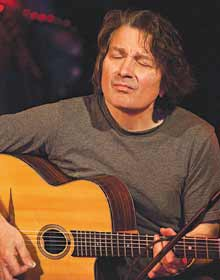 to of Reynold Philipsek performing at Hell's Kitchen in Minneapolis, MN in March of 2012.